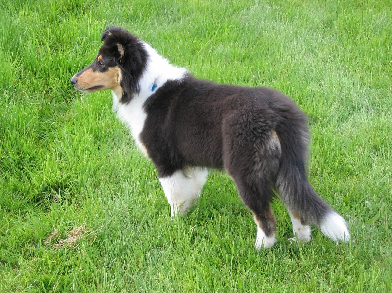 Picture taken by Greg Daly in Snohomish, WA of Collie puppy Strider (Fairway Lord of the Rings) on April 18th, 2004. The puppy was approximately 4 months old at the time of this photograph.